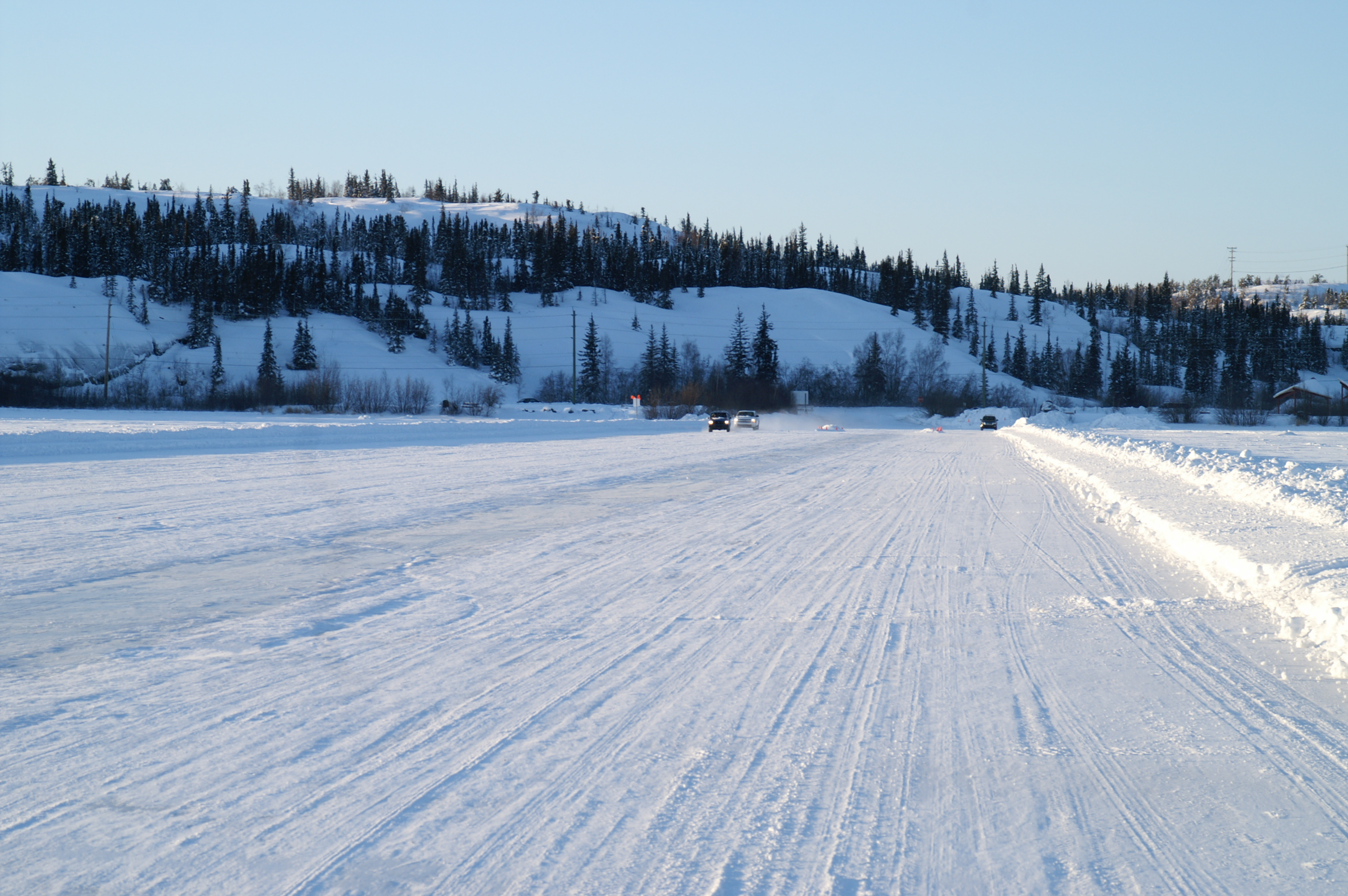 Ice road on Great Slave Lake, Northwest Territories, Canada